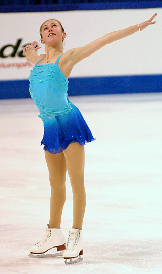 Kimmie Meissner competes her long program at the 2005 World Junior Championships in Kitchener, Ontario.